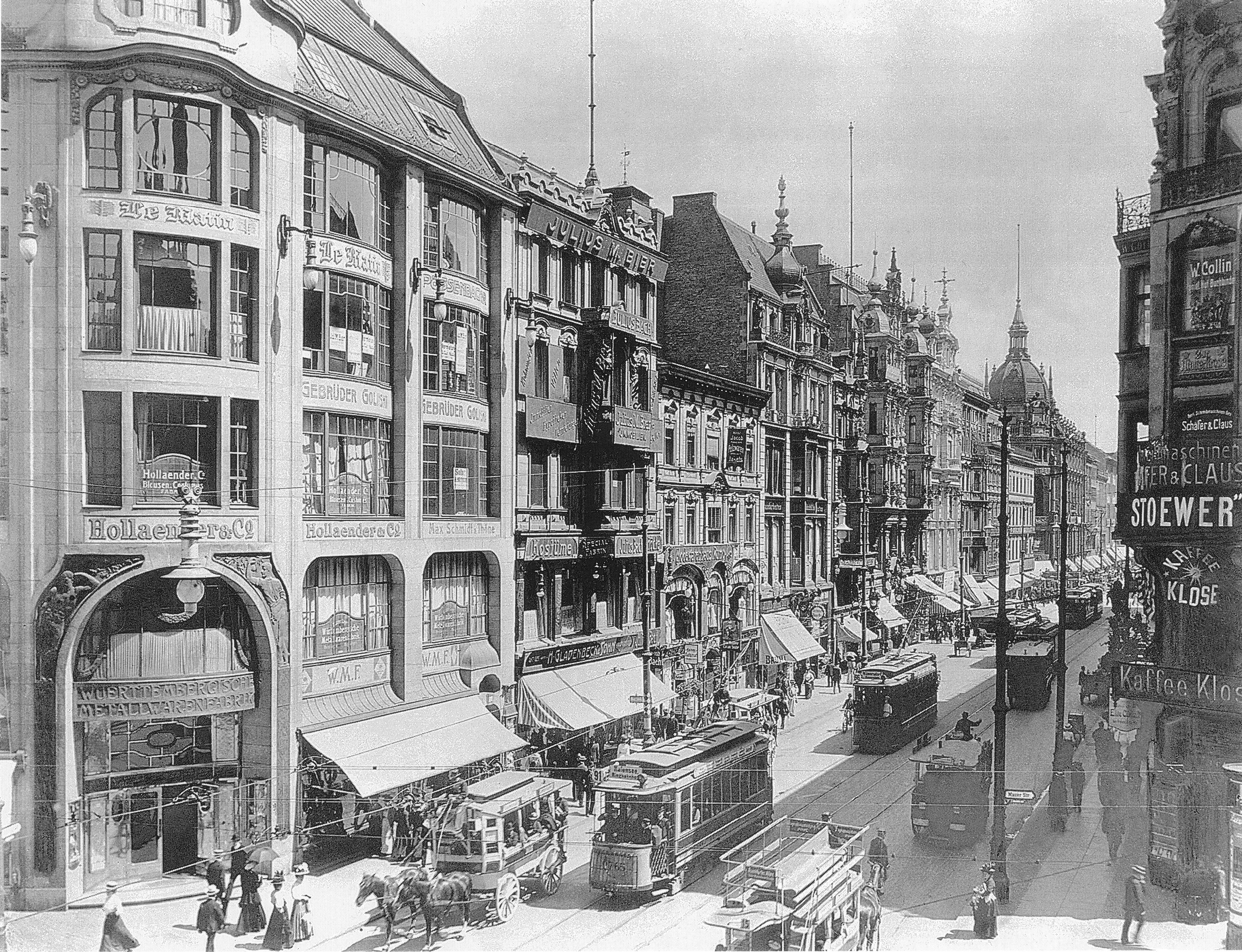 Berlin in 1909. View from the corner of Mauerstraße to the east into Leipziger Straße. The commercial building of the Württembergische Metallwarenfabrik on the left is the only historic building which has been preserved in this part of the street.